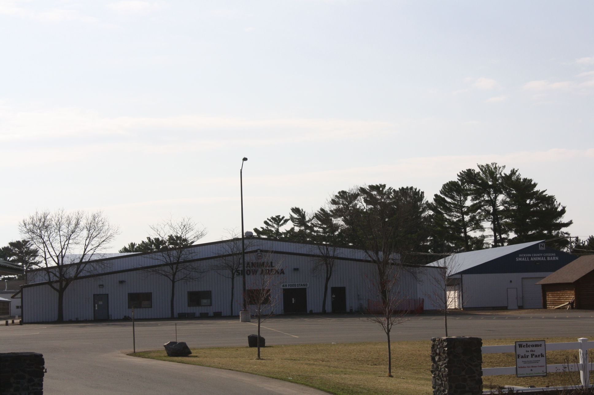 The Jackson County, Wisconsin fairgrounds near Black River Falls, Wisconsin.